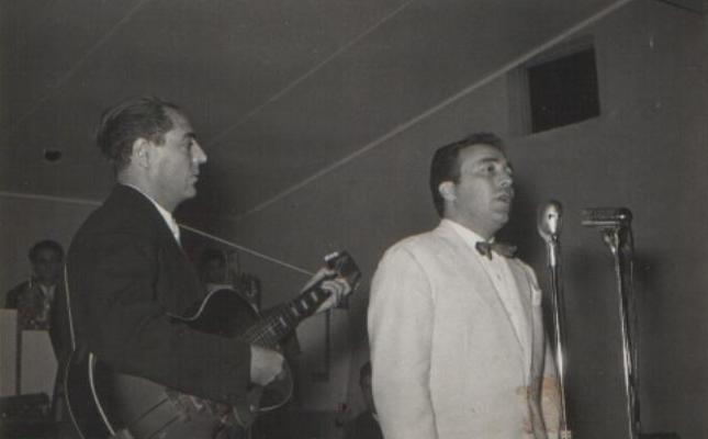 Singer Gino Latilla and guitarist Pino Rucher